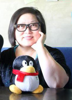 Su Baili